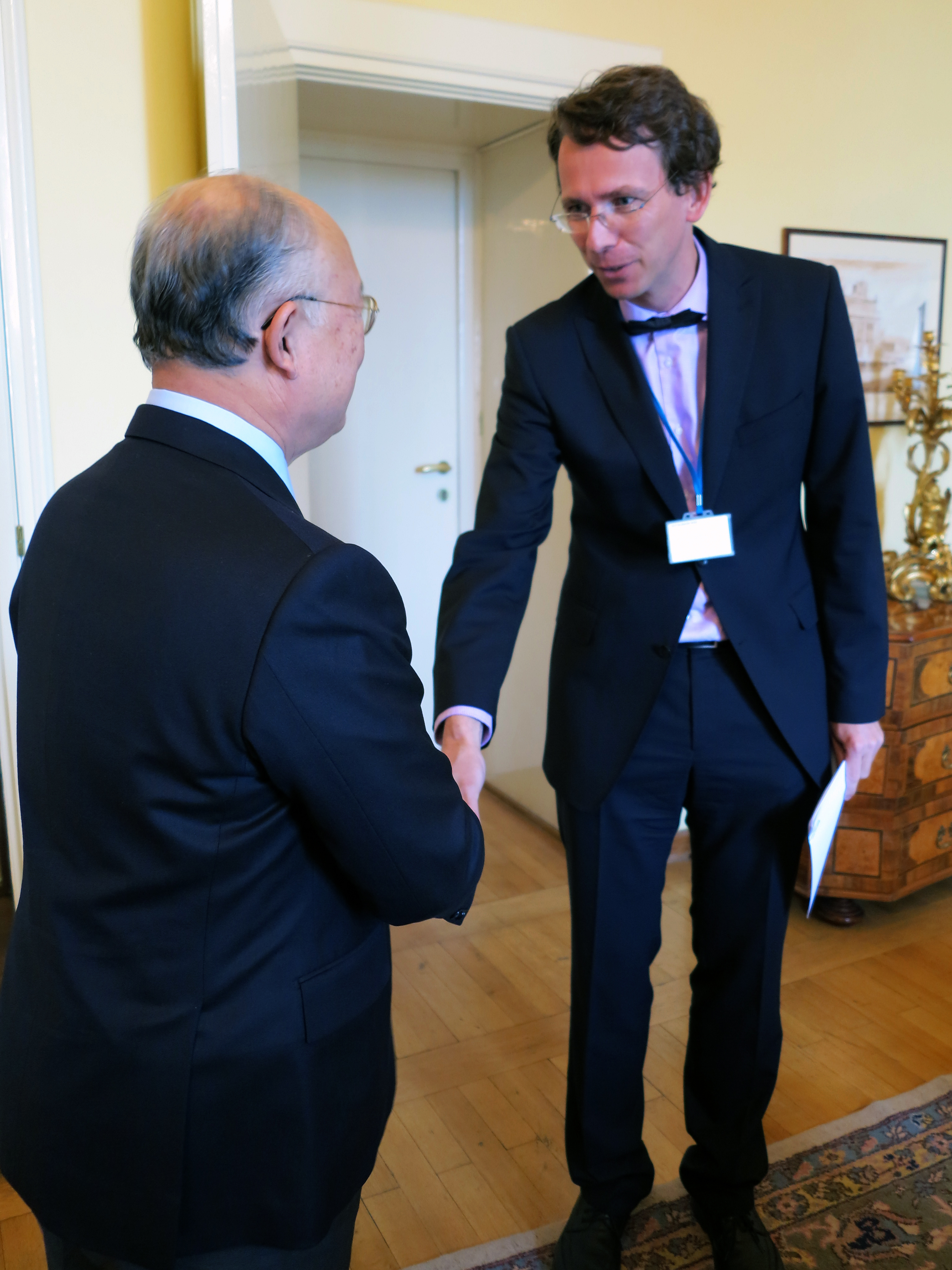 IAEA Director General Yukiya Amano met with Mr Petr Drulak, First Deputy Minister of Foreign Affairs, during his official visit to the Czech Republic. 28 April 2014 Photo Credit: Conleth Brady / IAEA